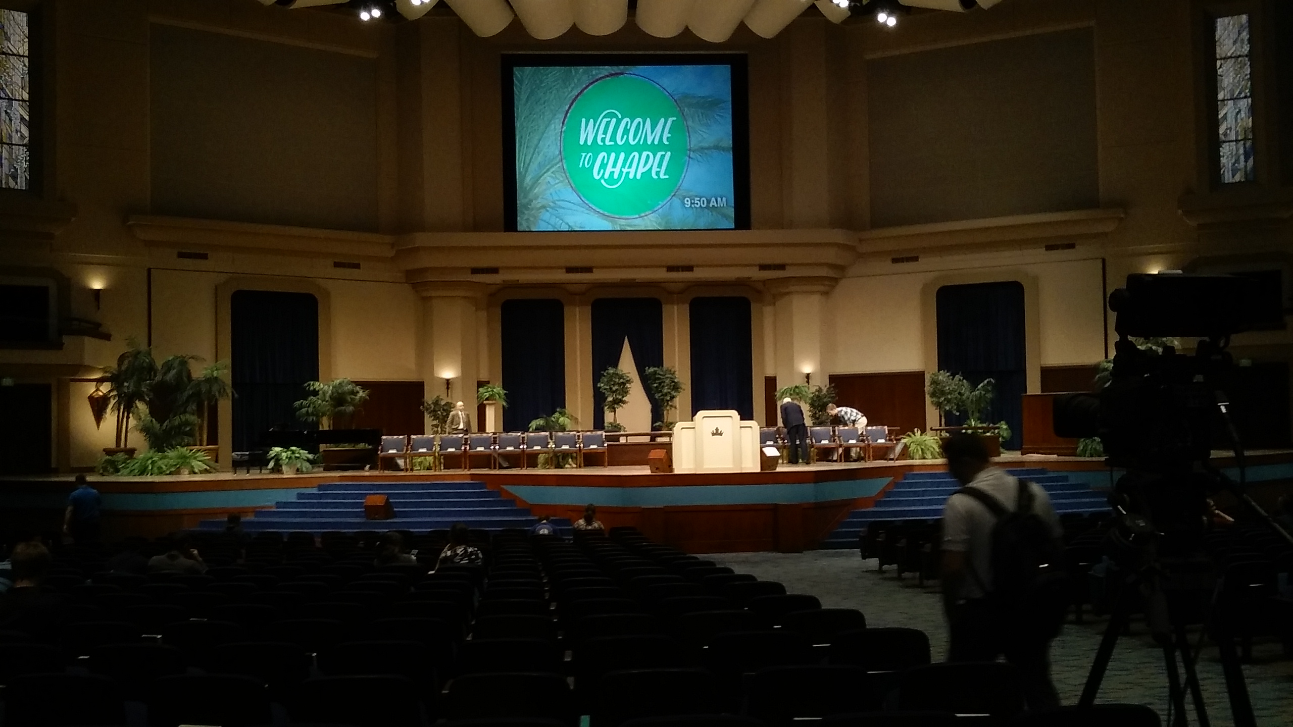 Interior of the Crowne Center, which serves as an auditorium and campus church for Pensacola Christian College. This image was taken during College Days, a public event held on the campus.